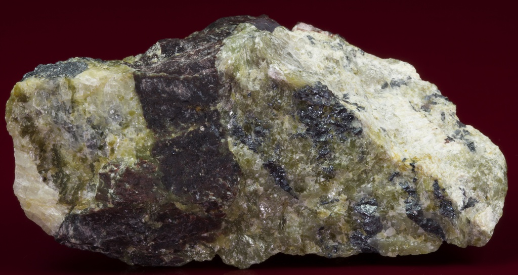 Althausite, Hematite, Lizardite Locality: Overntjern Quarry, Overntjern, Modum, Buskerud, Norway Dimensions: 8.0 cm x 4.0 cm x 3.0 cm Dark reddish brown, subhedral crystals of althausite to 3cm in a serpentine-talc matrix with dark gray subhedral hematite crystals and aggregates to 2cm. A very good example for the species. Ex. Paulo Matioli collection. Photos by Tom and Melissa Campbell.